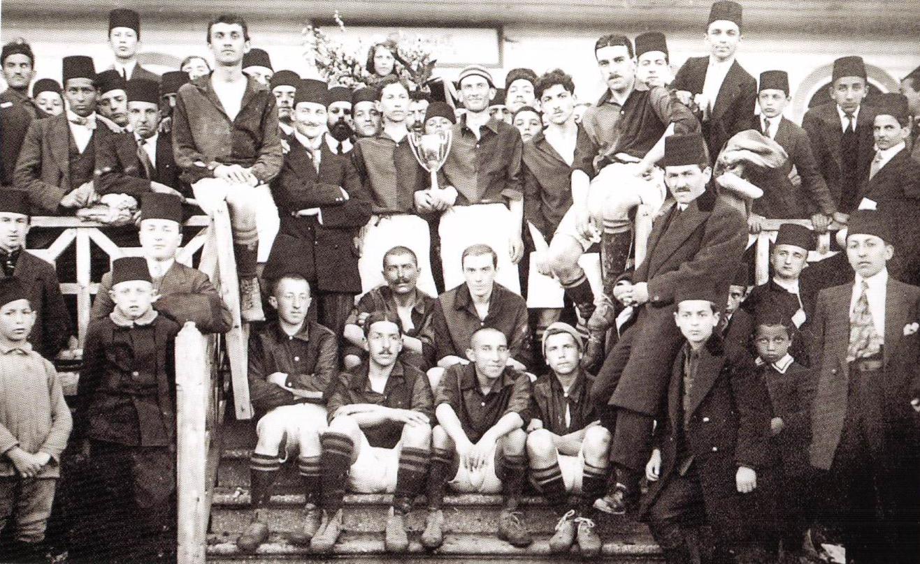 Galatasaray SK 1915-1916 Football Team